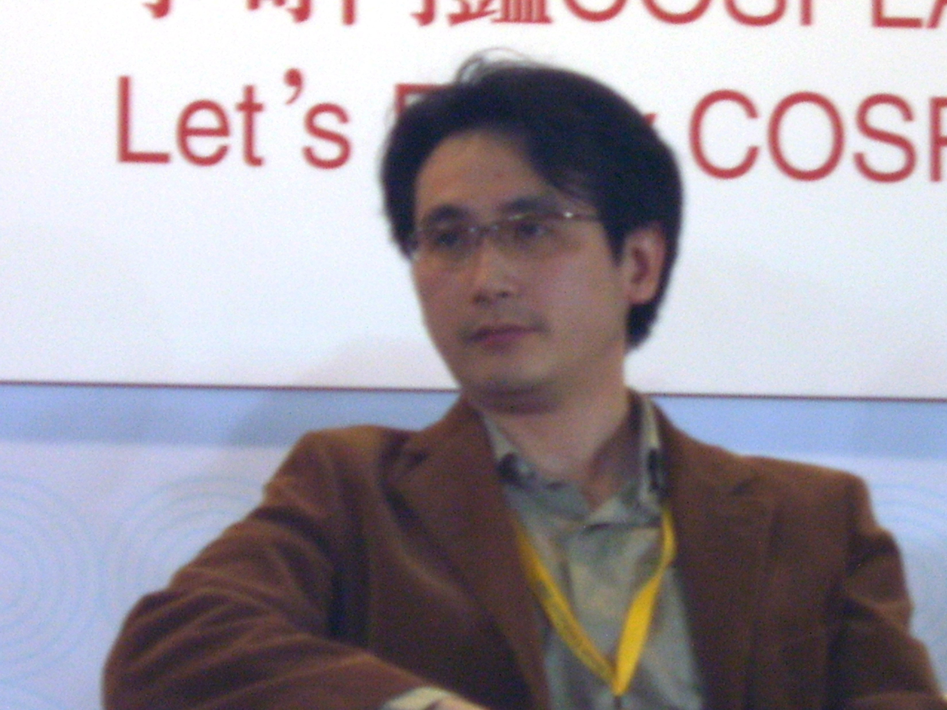 DPP Legislator Cheng Yun-peng.